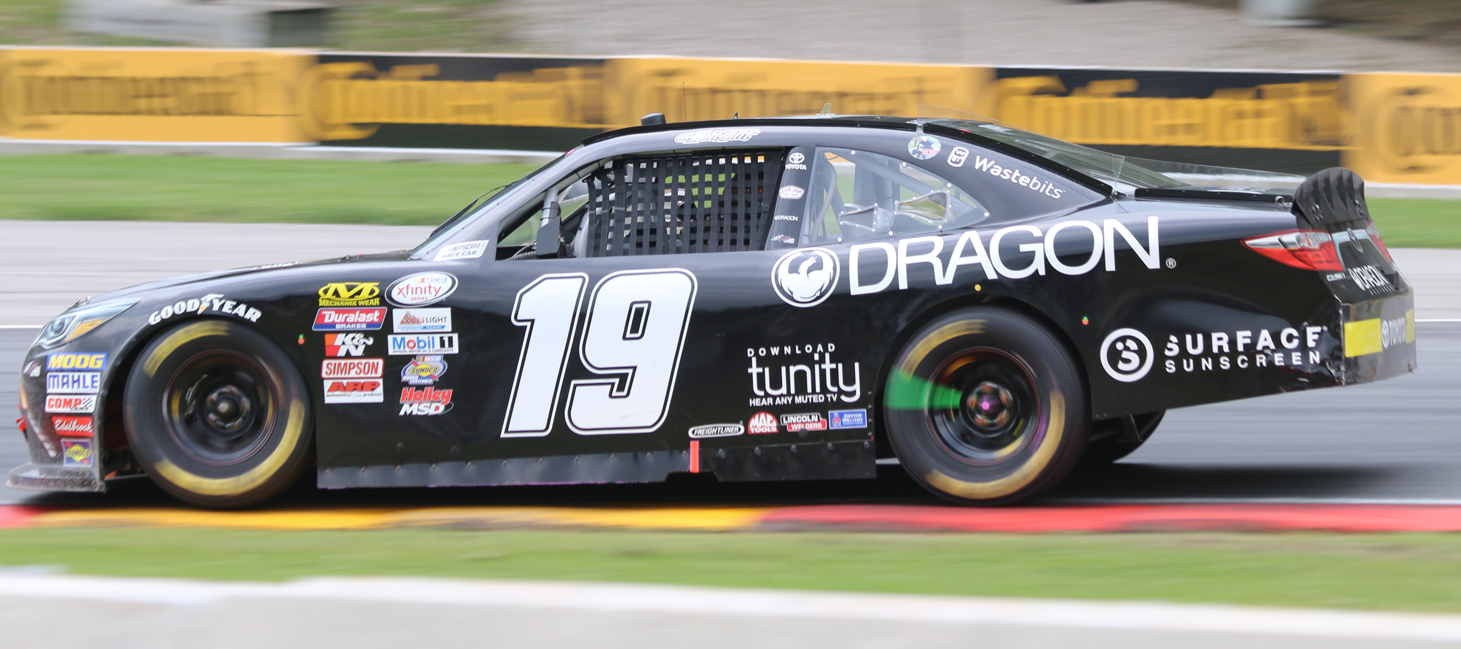 The Toyota Camry of Matt Tifft at the NASCAR Xfinity Series Johnsonville 180.